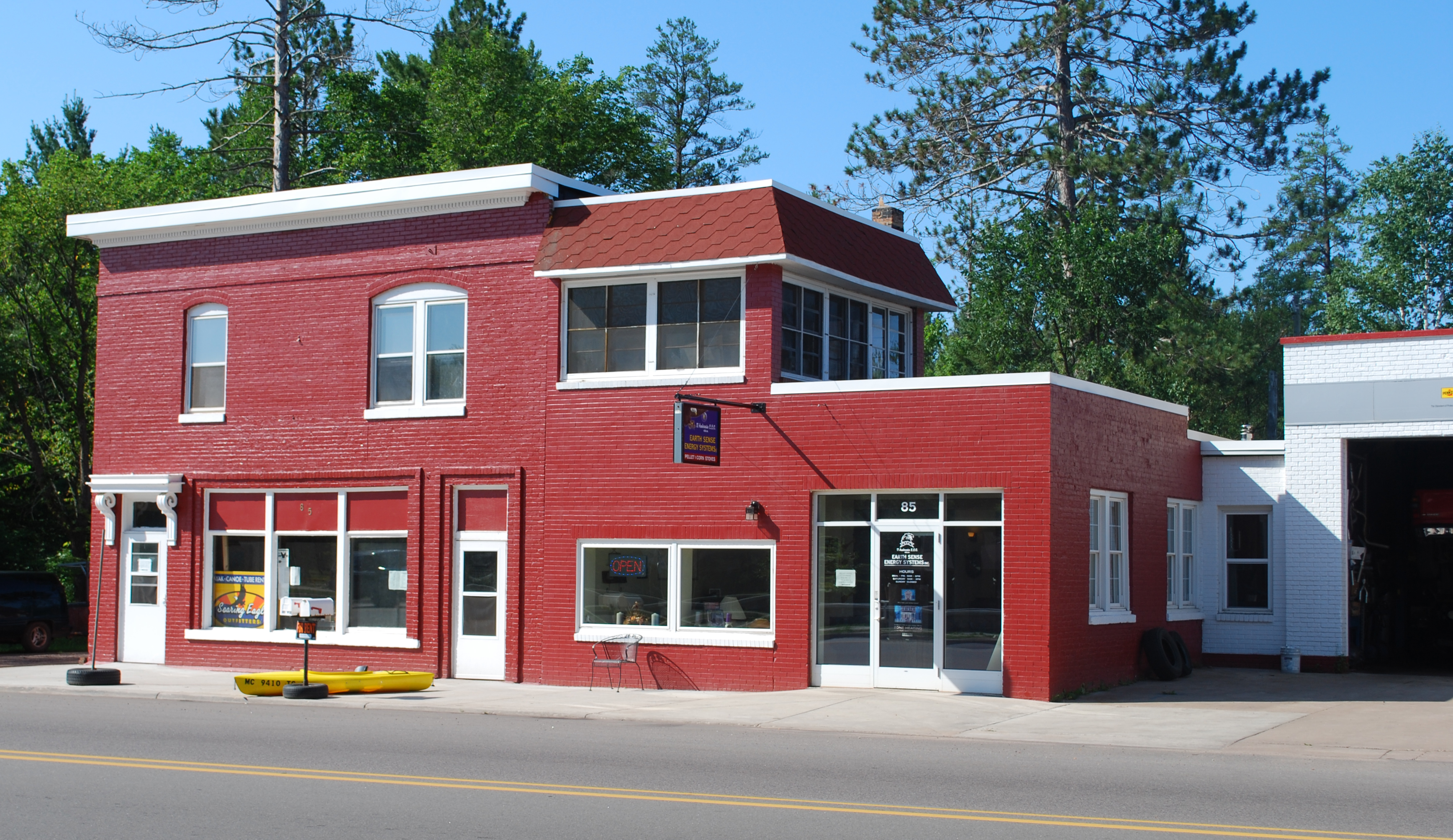 Gwinn Model Town Historic District--store near river